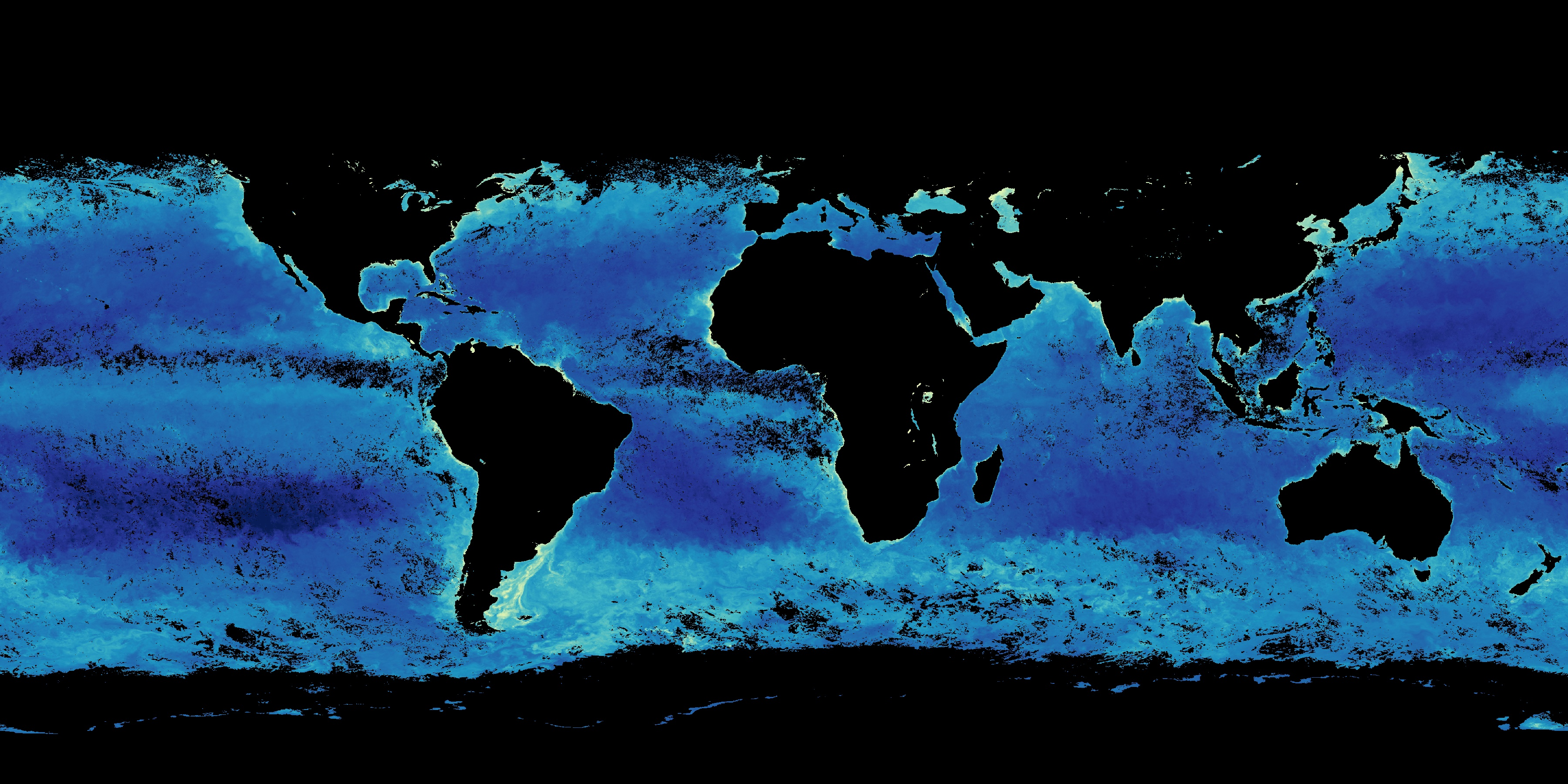 This map shows where tiny, floating plants live in the ocean. These plants, called phytoplankton, are an important part of the ocean's food chain because many animals (such as small fish and whales) feed on them. Scientists can learn a lot about the ocean by observing where and when phytoplankton grow in large numbers. Scientists use satellites to measure how much phytoplankton are growing in the ocean by observing the color of the light reflected from the shallow depths of the water. Phytoplankton contain a photosynthetic pigment called chlorophyll that lends them a greenish color. When phytoplankton grow in large numbers they make the ocean appear greenish. These maps made from satellite observations show where and how much phytoplankton were growing on a given day, or over a span of days. The black areas show where the satellite could not measure phytoplankton.